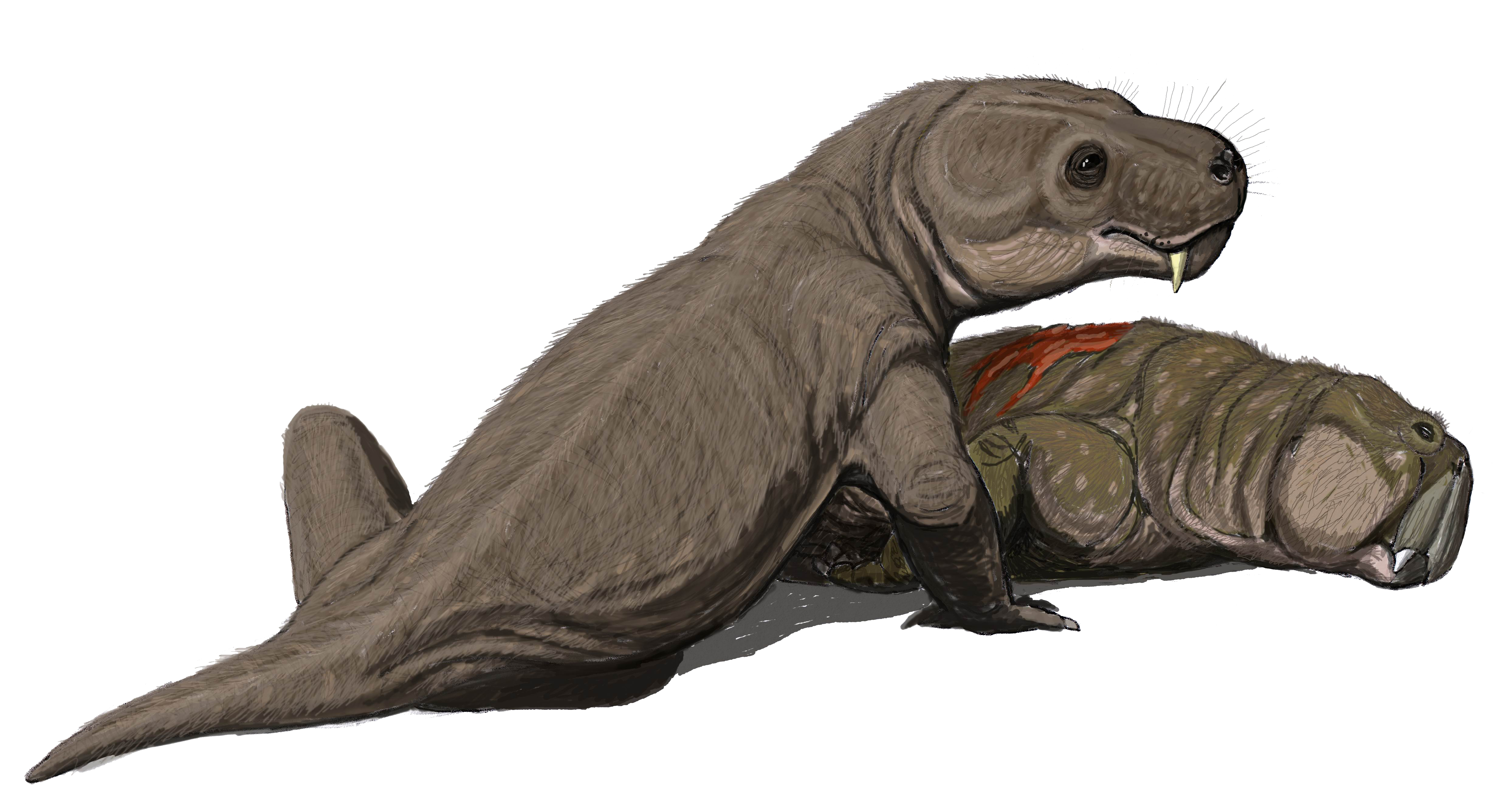 Moschorhinus kitchingi with Lystrosaurus. Basal Triassic of South Africa.